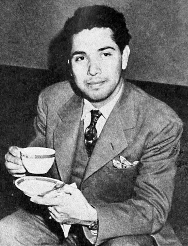 Photograph of songwriter Alberto Dominguez